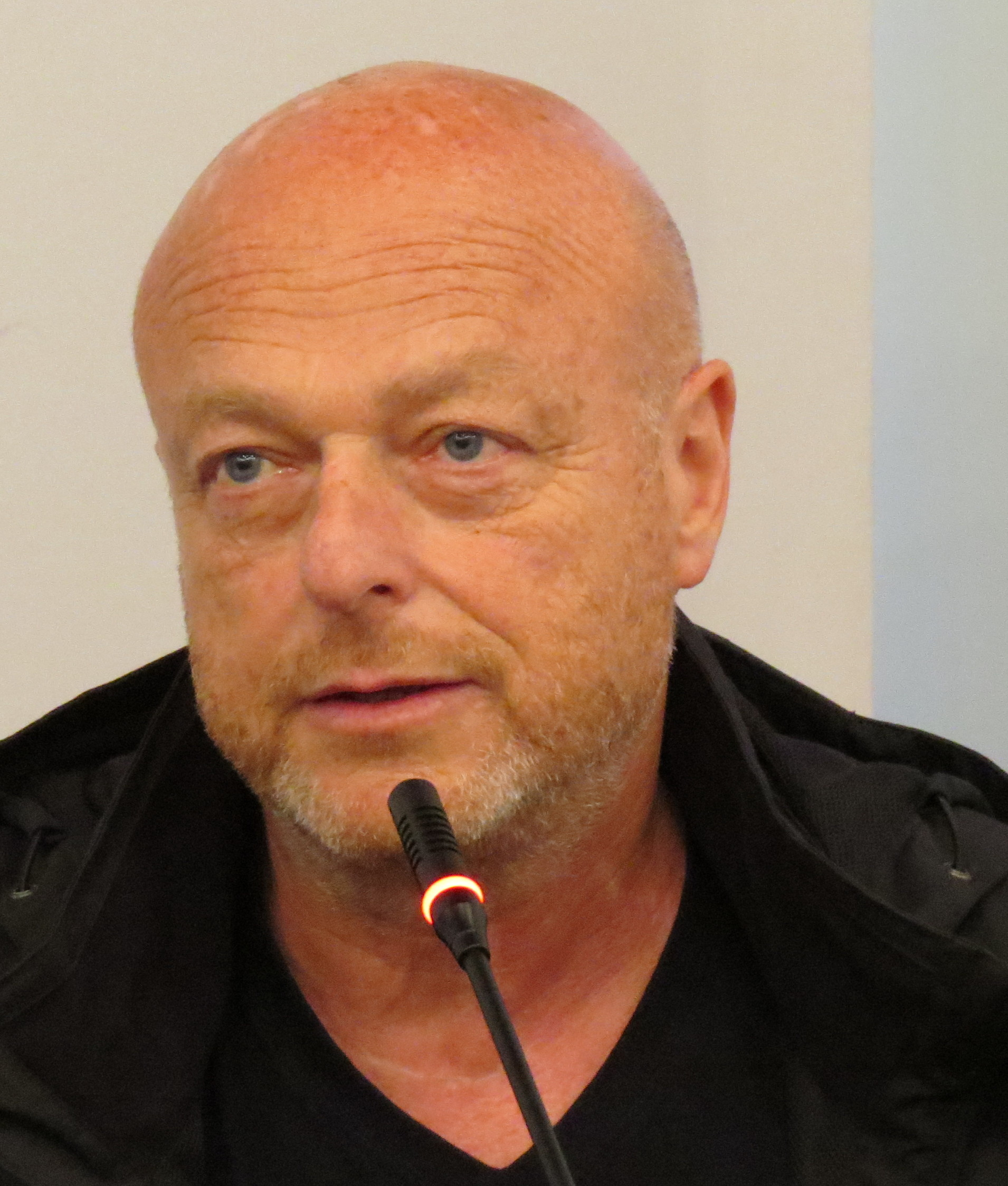 Voices International Festival 2015 in Vologda.